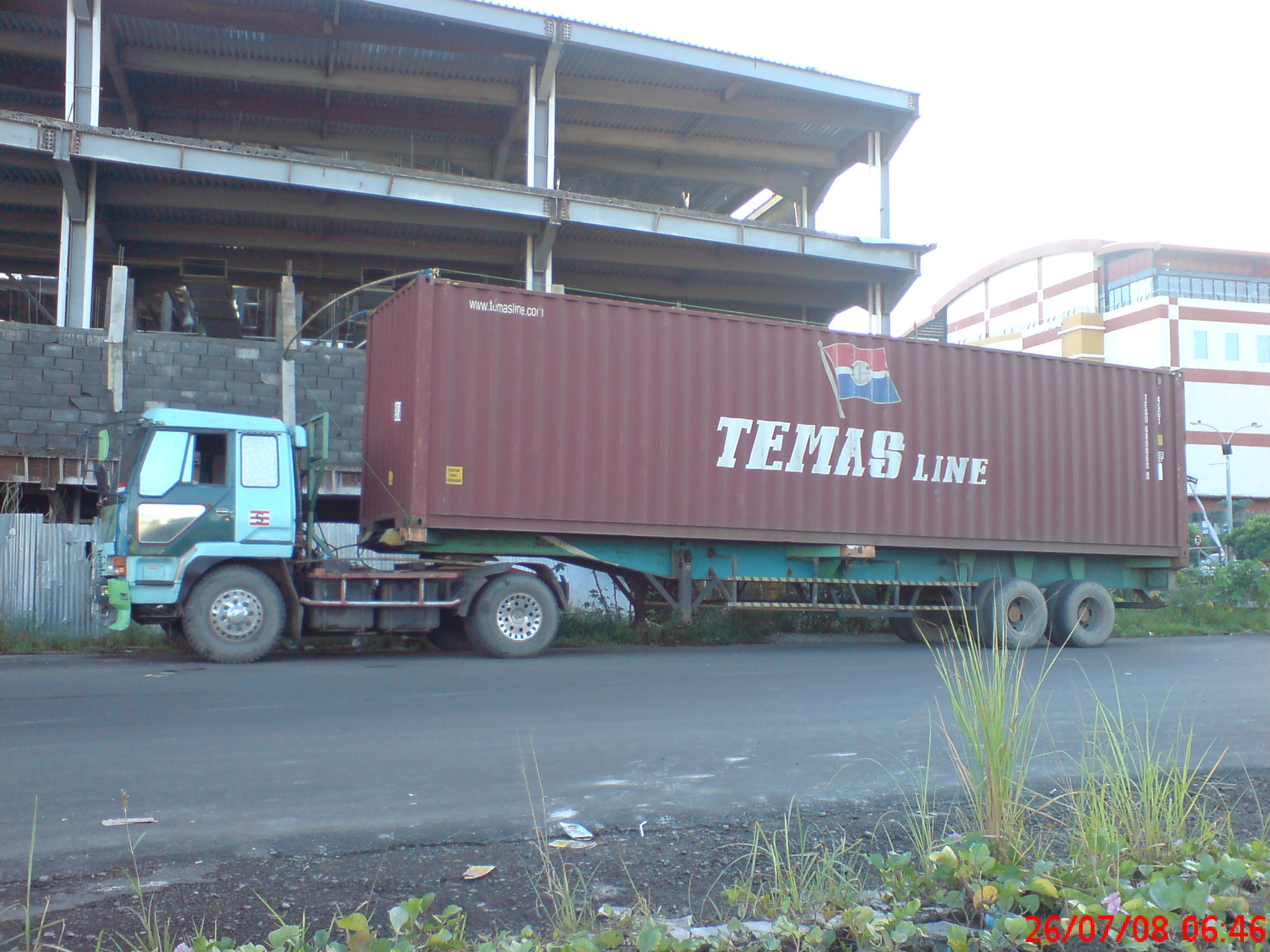 The Great 1985 - 1990 model